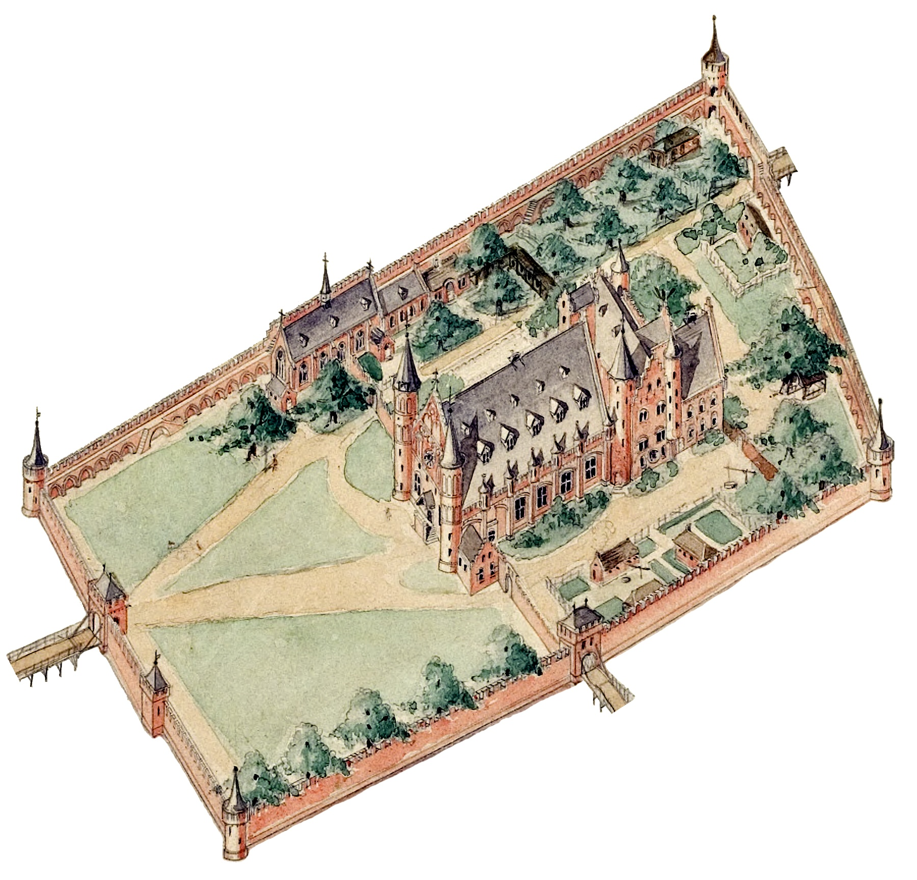 The Binnenhof (inner court) in The Hague in about 1280. Reconstruction by Cornelis Peters (1847-1932)